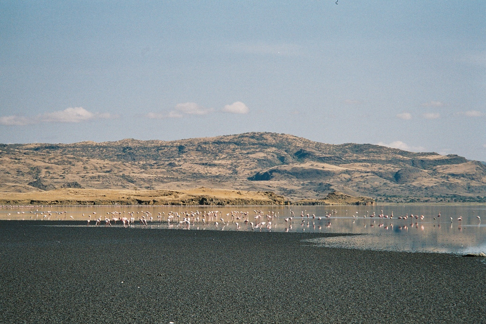 Lake Natron, Northern Tanzania. Picture taken from the southernmost tip of the Lake, facing Northwest. Lesser Flamingoes are seen On the foreground, and the inner rim of the Great African rift is seen on the background.